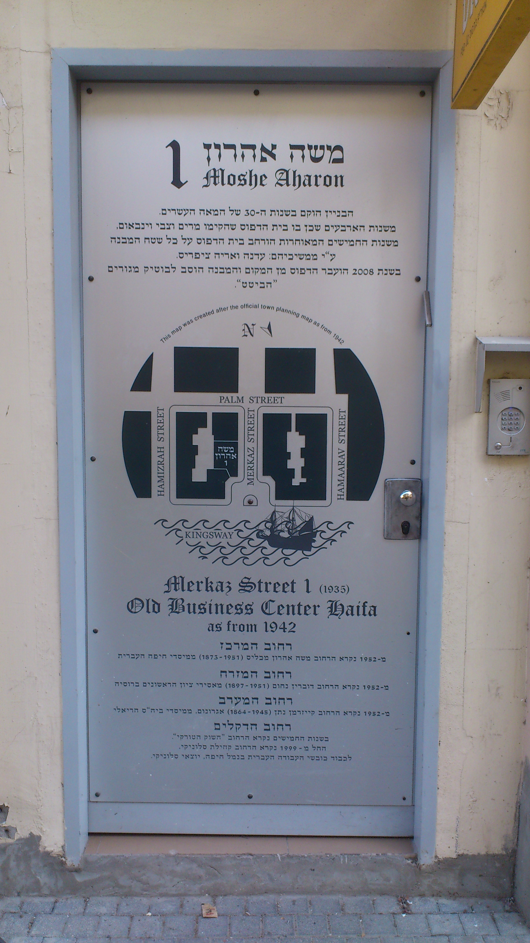 Downtown, Haifa - Turkish Market